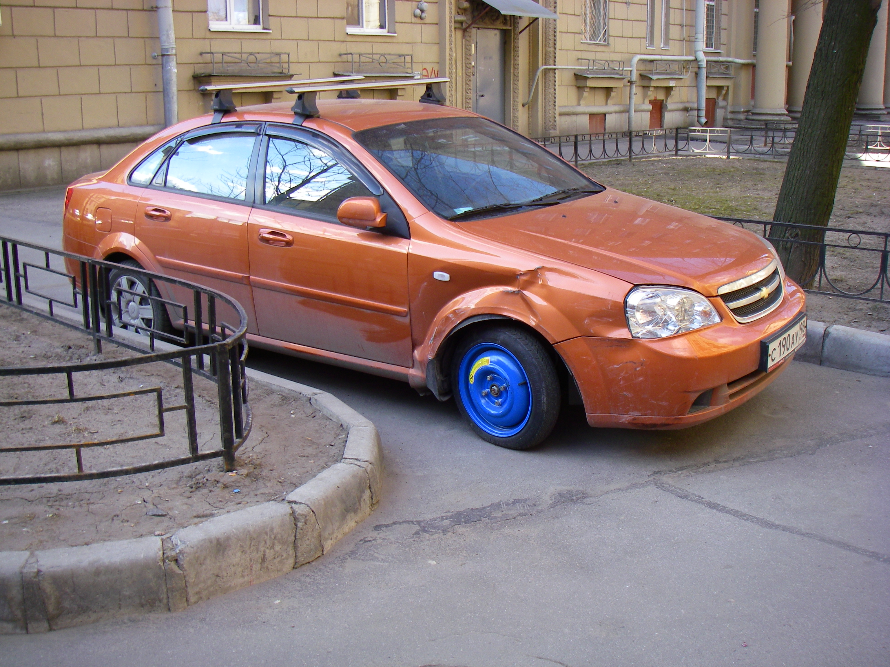 Donut tire installed on a car